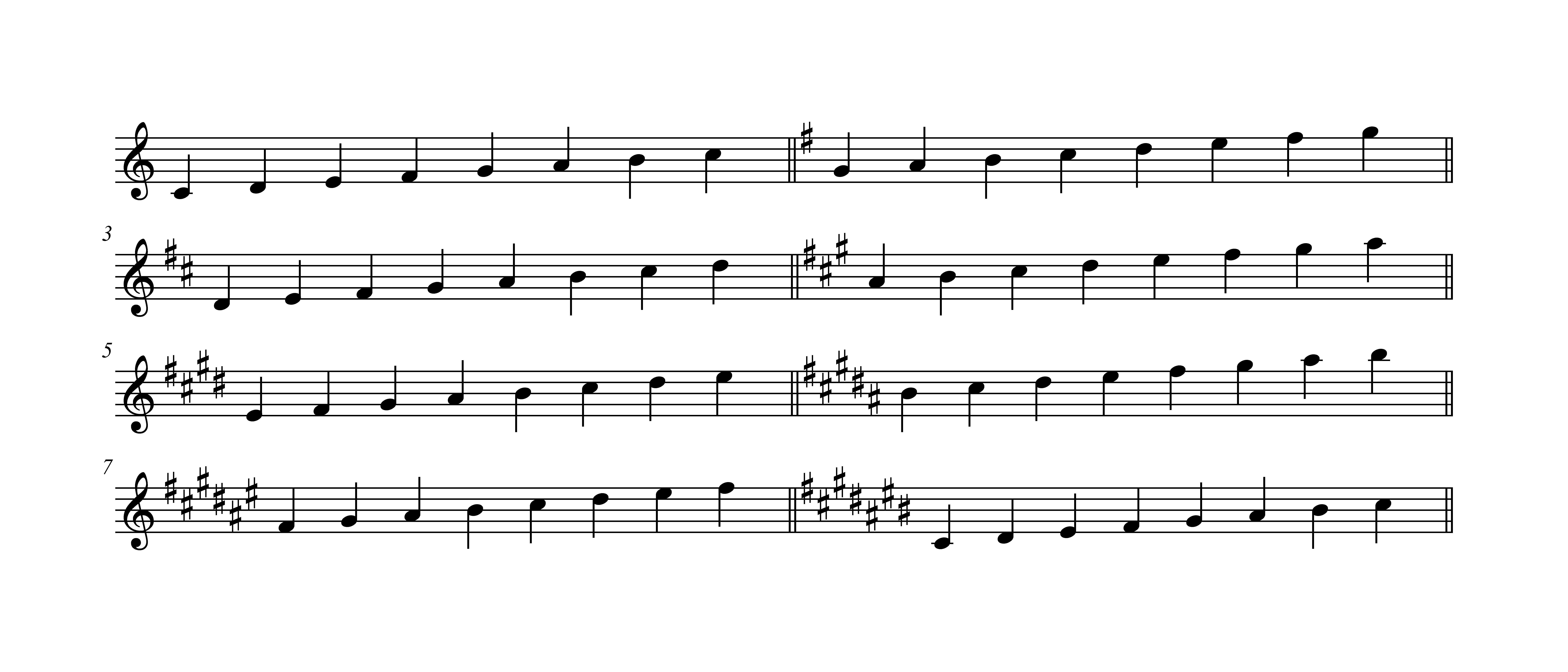 The major scale is a sequence of patterns that provide a distinct sound to the listeners ear. This scale is common in Western tonality and is very important in Classical tradition. The major scale is comprised of certain steps - being Whole-Whole-Half-Whole-Whole-Whole-Half. A whole step is comprised of two semi tones, and a half step is comprised of one semi tone. This formula can be applied on any starting note, and should have 8 notes ending on the same note.